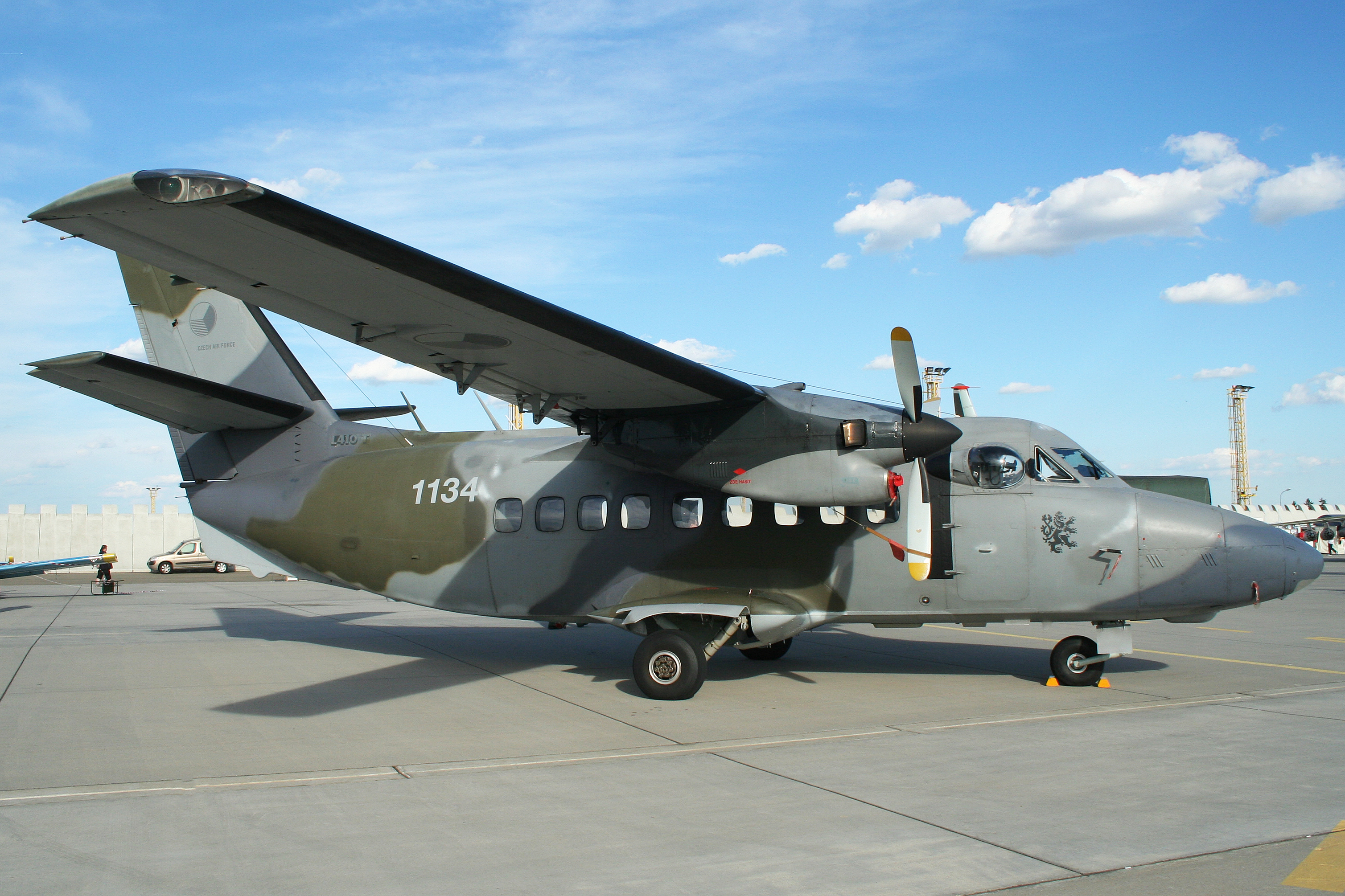 Operated by 242.tsl based at Kbely. msn 831134. On static display at the Namest Open Day, Czech Republic. 06-10-2012